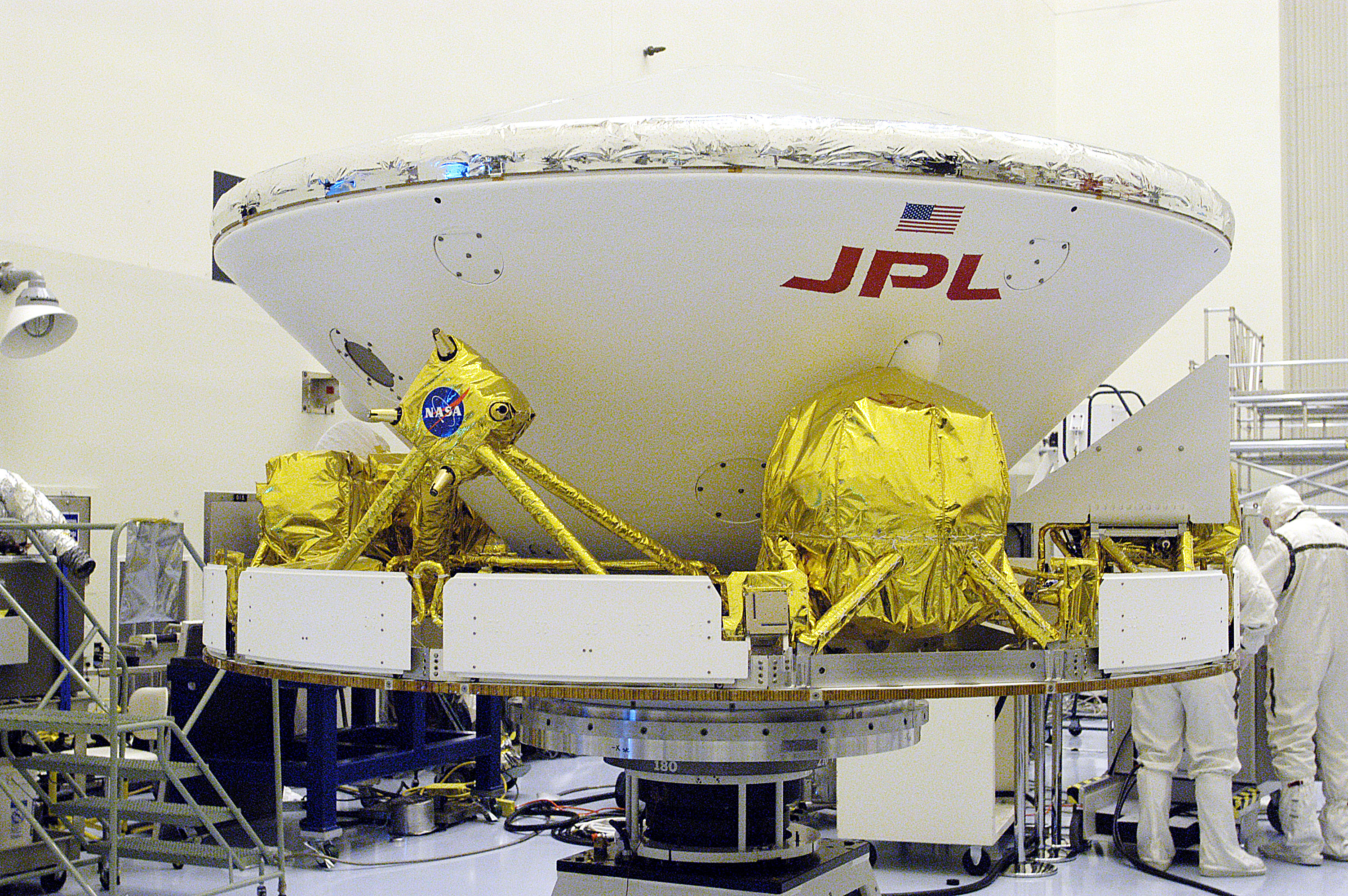 In the Payload Hazardous Servicing Facility, the Mars Exploration Rover-1 (MER-B) awaits further preflight processing atop a spin table. The rover is scheduled to launch aboard a Delta II rocket on June 25. NASA’s twin Mars Exploration Rovers are designed to study the history of water on Mars. These robotic geologists are equipped with a robotic arm, a drilling tool, three spectrometers, and four pairs of cameras that allow them to have a human-like, 3D view of the terrain. Each rover could travel as far as 100 meters in one day to act as Mars scientists' eyes and hands, exploring an environment where humans are not yet able to go. The launch of MER-2 (MER-A) is tentatively set for June 8.